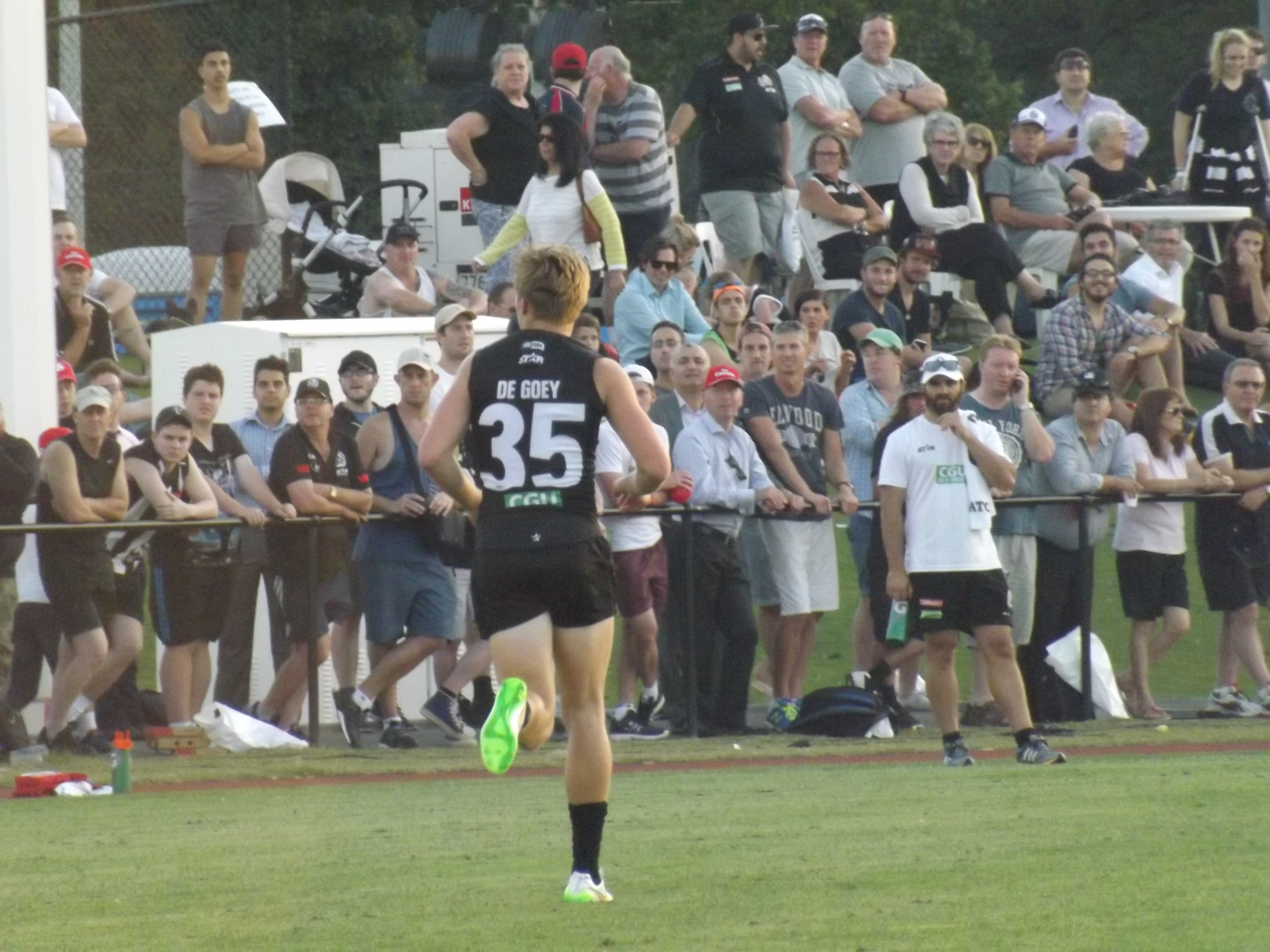 Jordan De Goey during a Collingwood intra-club match at Olympic Park, Melbourne.